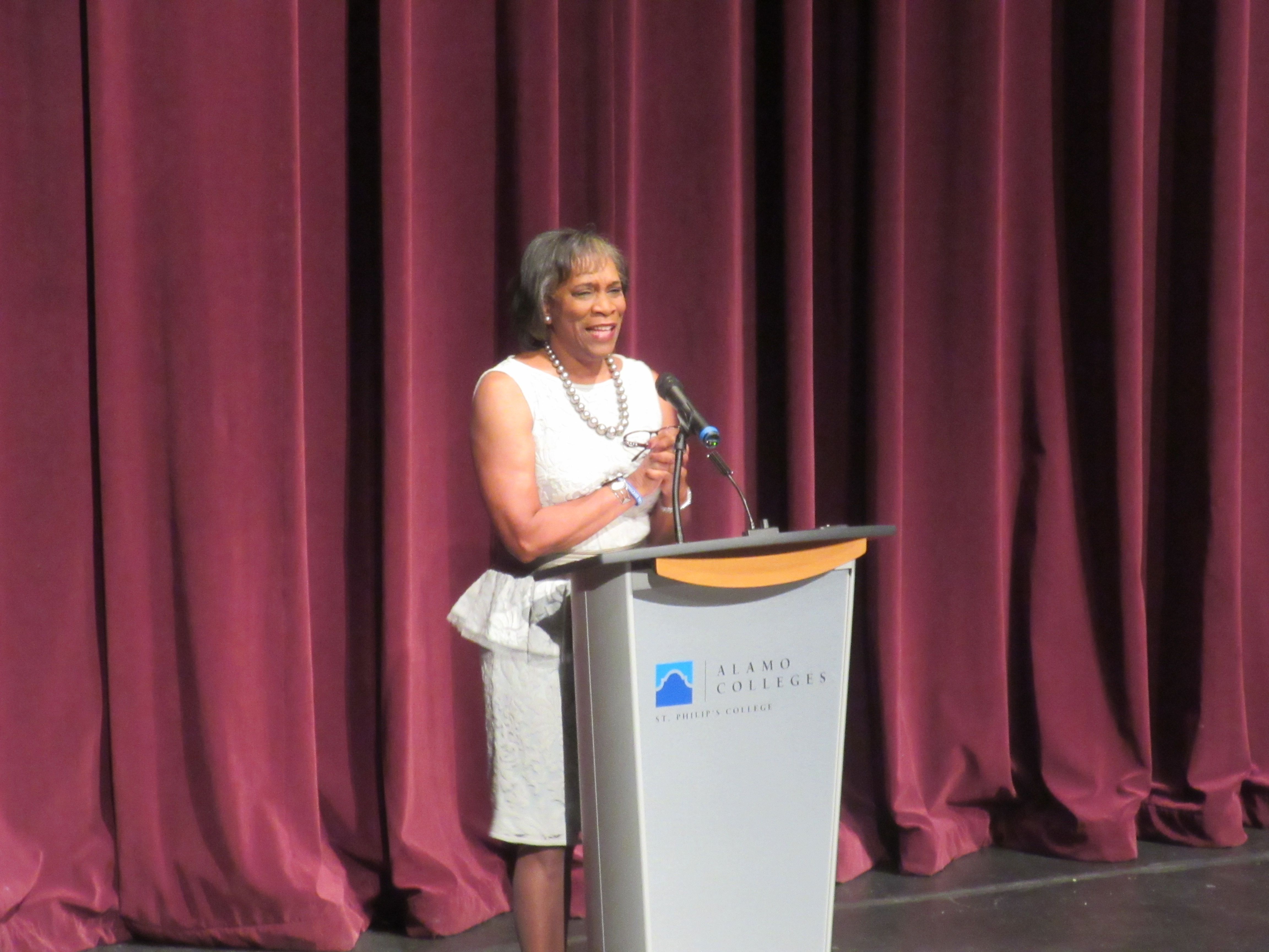 Dr. Adena Williams Loston opening the fall 2015 President's Lecture Series and introducing special guest Jim Avila on October 1, 2015.